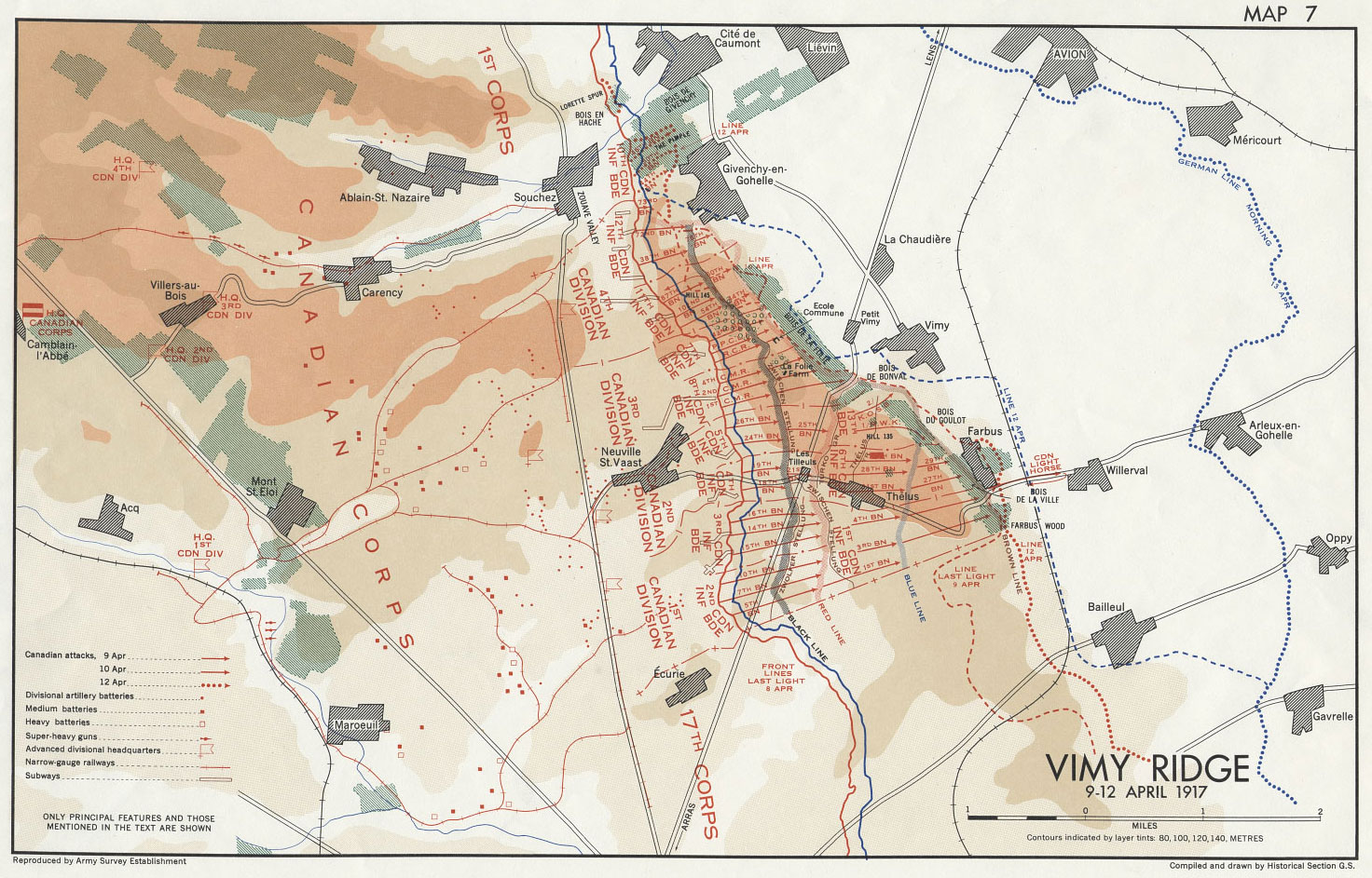 'Map 7 Vimy Ridge' from Nicholson text, Compiled and drawn by Historical Section of the General Staff, Department of National Defence